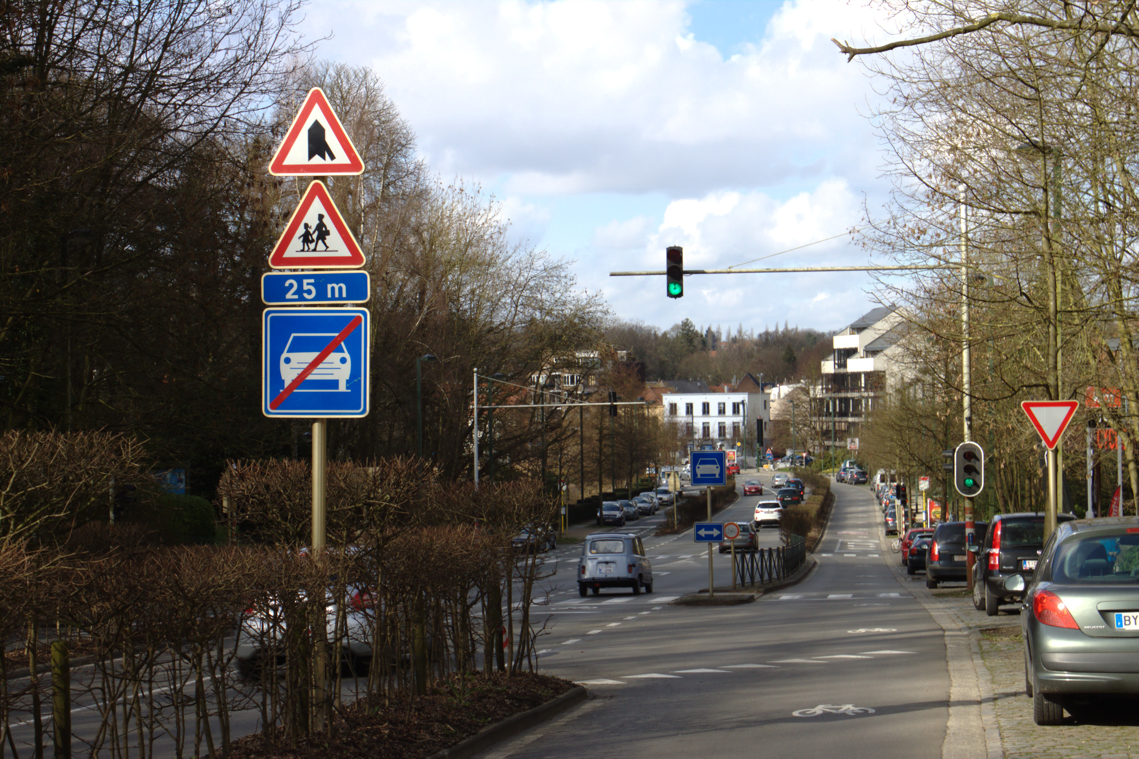 Vorsterielaan Street in southern part of Brussels, Belgium